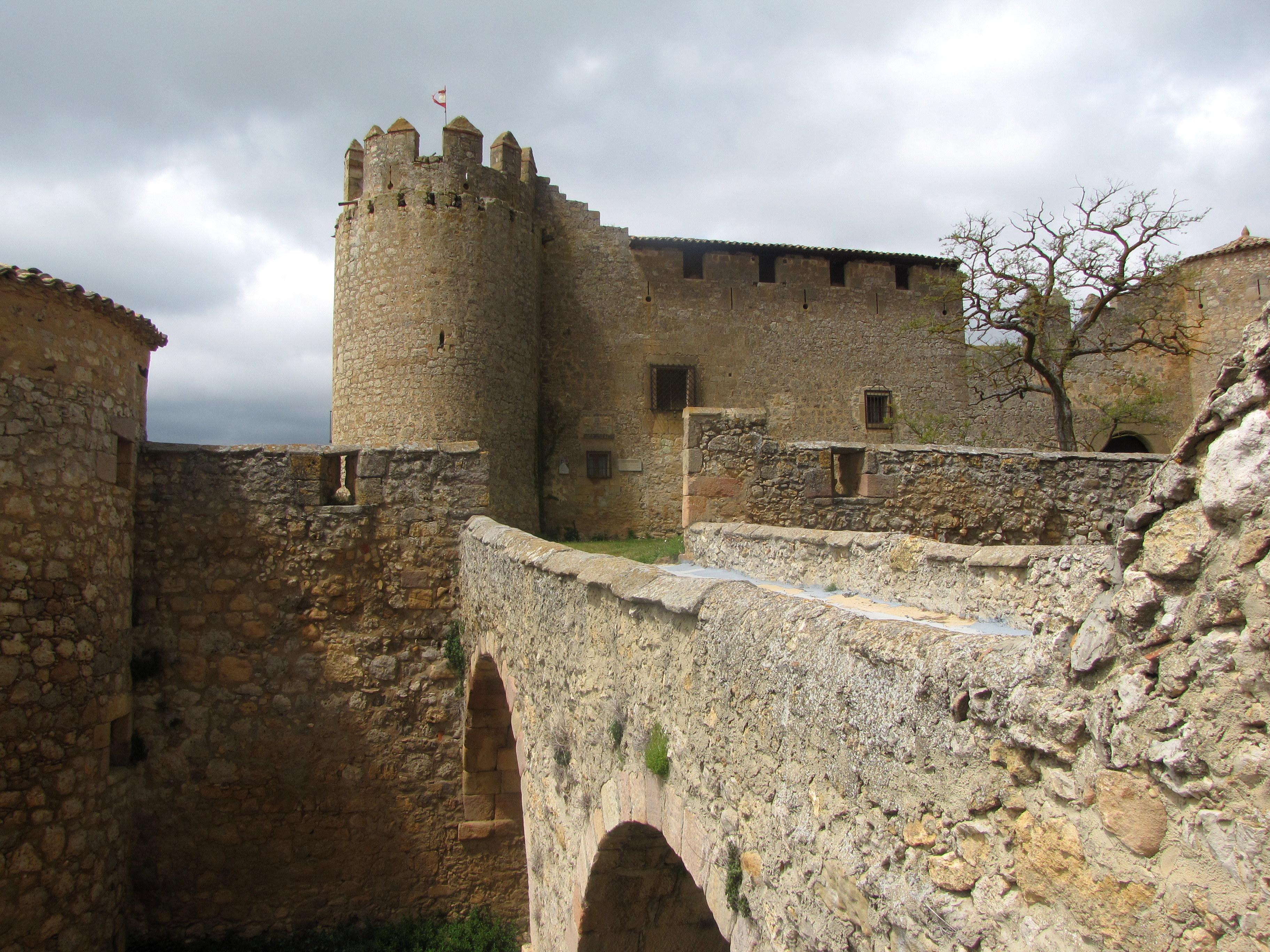 This Castillo was the birthplace of Leonor Izquierdo Cuevas, the wife and muse of Spanish poet Antonio Machado